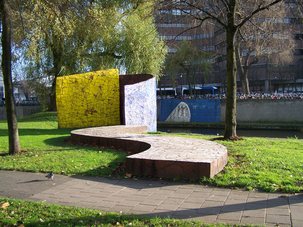 Ceramic sculpture at the Smakkelaarsveld in Utrecht. In 1989 this was the biggest Ceramic sculpture of the Netherlands. It was made by David Vandekop and consists of 4 elements.